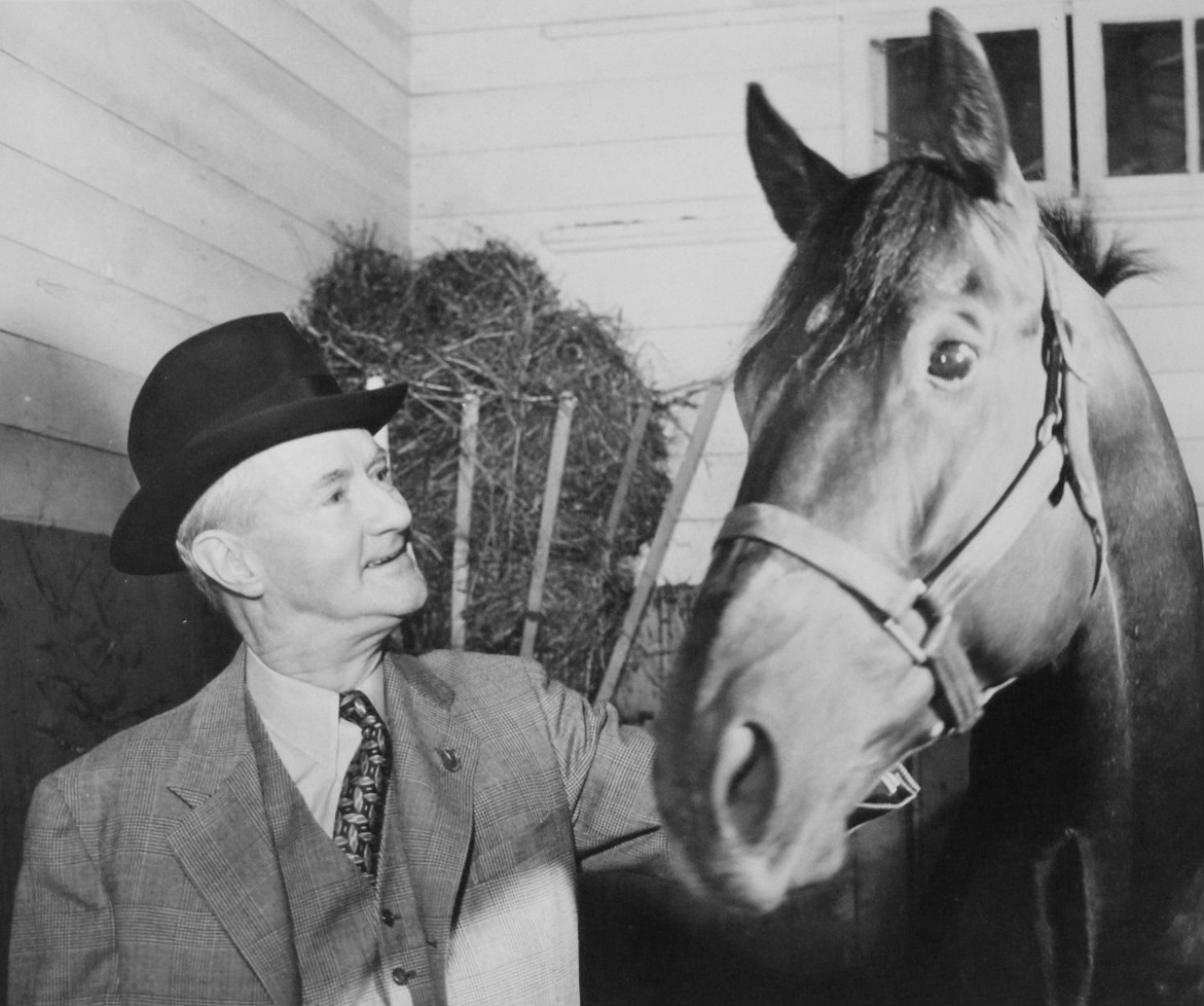 Publicity photo of Clem McCarthy.